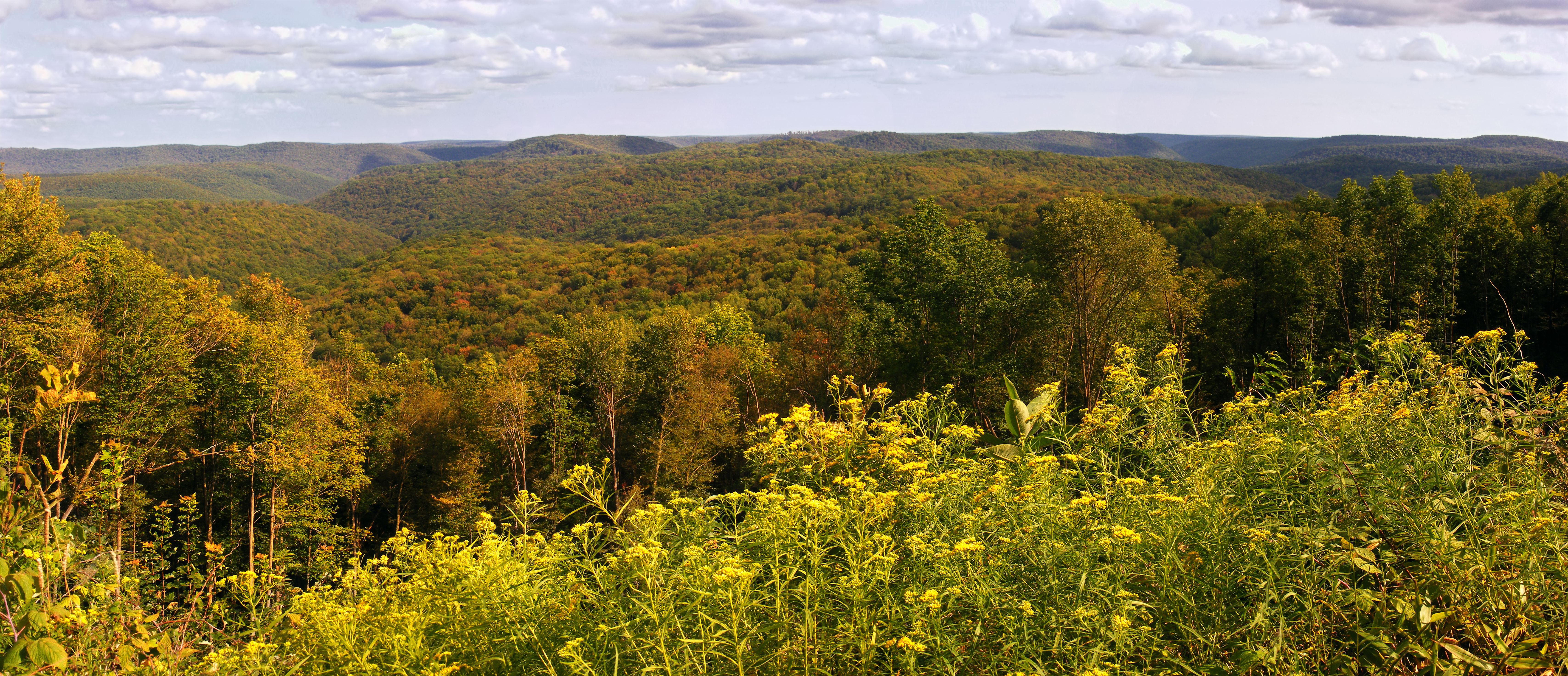 Susquehannock State Forest, Potter County, as seen from Little Lyman Vista (elevation approximately 2400 feet [732 meters]). Streams dissecting the Allegheny Plateau create the many furrows that characterize the landscape here and elsewhere in the region.